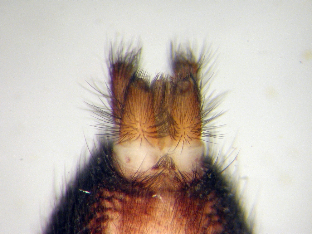 Clubiona cf. corticalis, Nied, Frankfurt/Main, Germany